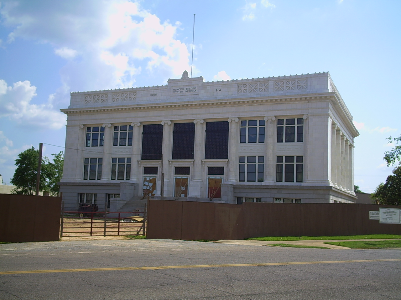 Meridian, Mississippi's City Hall (aka Municipal building) during restoration efforts in 2010.